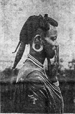 A Kikuyu man in the early 20th century